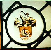 The Op den Graeff window of Krefeld, glass paintings with the coat of arms from Hermann op den Graeff, showing the "Lohengrin Swan" of the Arms of Cleves